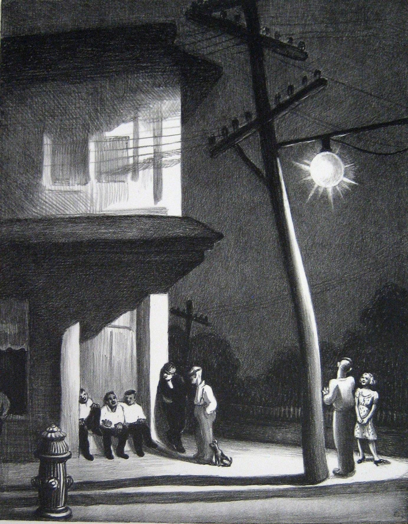 Mabel Dwight, Summer Evening, 1945, lithograph, 30.5 x 24.1 cm, edition of 7